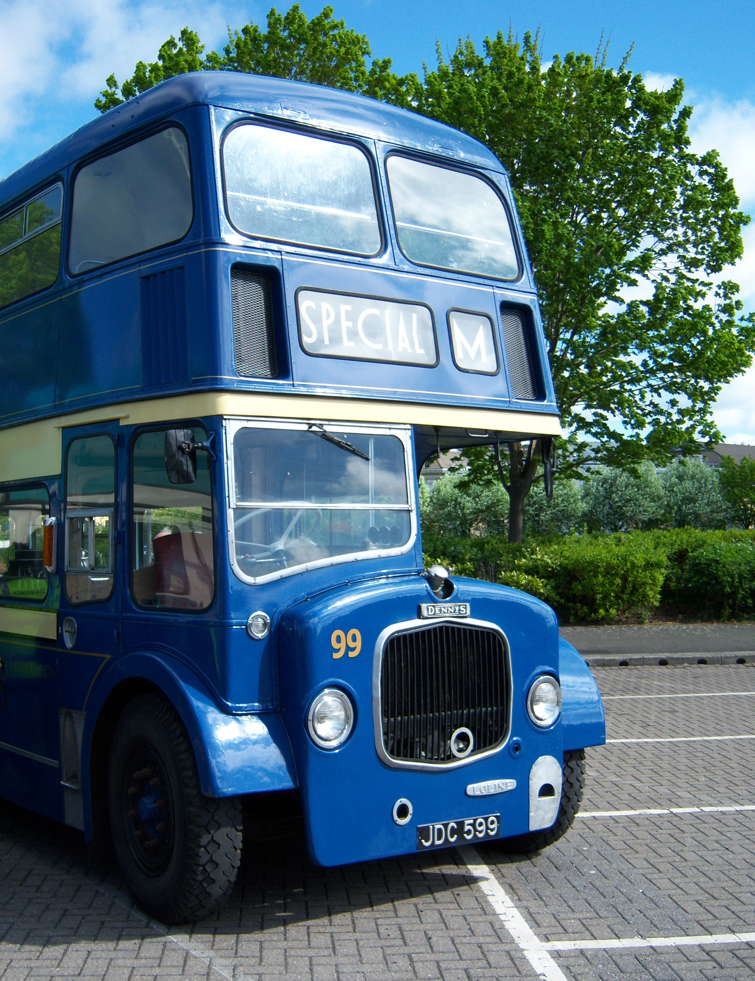 Preserved Middlesbrough Corporation bus 99 (reg. JDC 599), a 1958 Dennis Loline Mk1 with Northern Counties bodywork, pictured at the 2009 Metrocentre bus rally.